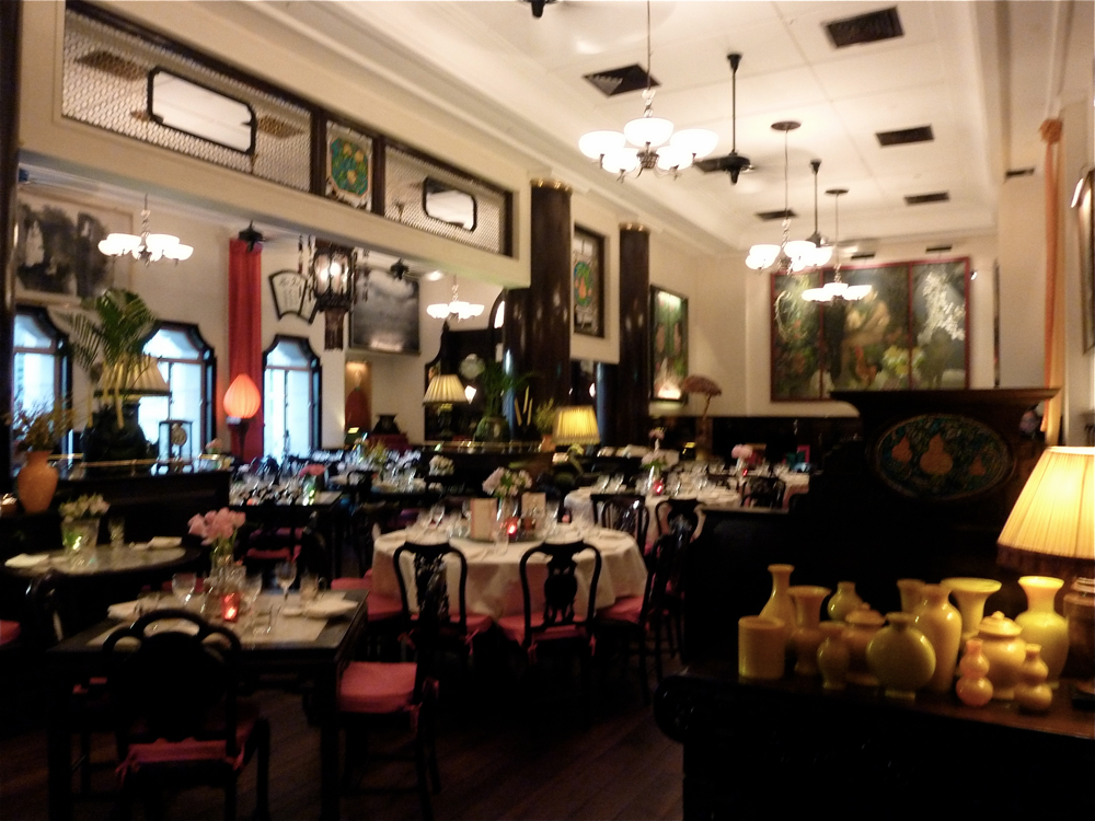 China Club - main dining room